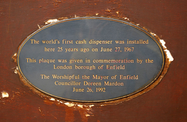 Plaque on Barclays Bank, Church Street, Enfield This plaque in the front wall of Barclays Bank to the left of the entrance marks the place where the world's first cash dispenser was installed on 27 June 1967. This plaque was given in commemoration by the London Borough of Enfield, The Worshipful the Mayor of Enfield Councillar Doreen Mardon on 26 June 1992 to mark the 25th Anniversary of this event which changed the world of banking for ever.